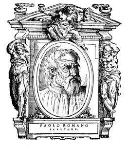 Illustratio from "Le Vite" by Giorgio Vasari, edition of 1568. For the artist portrayed see filename